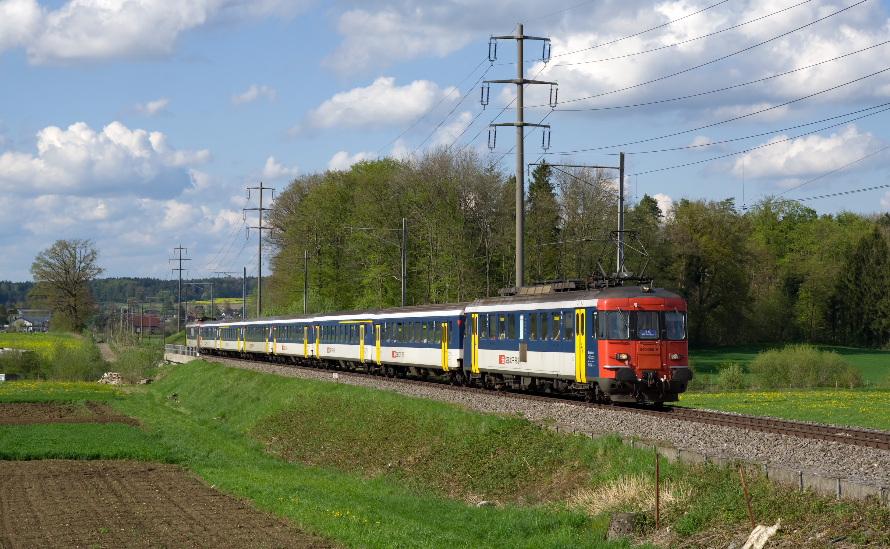 Push-pull train consisting of RBe 540 motor coaches top-and-tail and six coaches in between on the S-Bahn Zürich S33 service